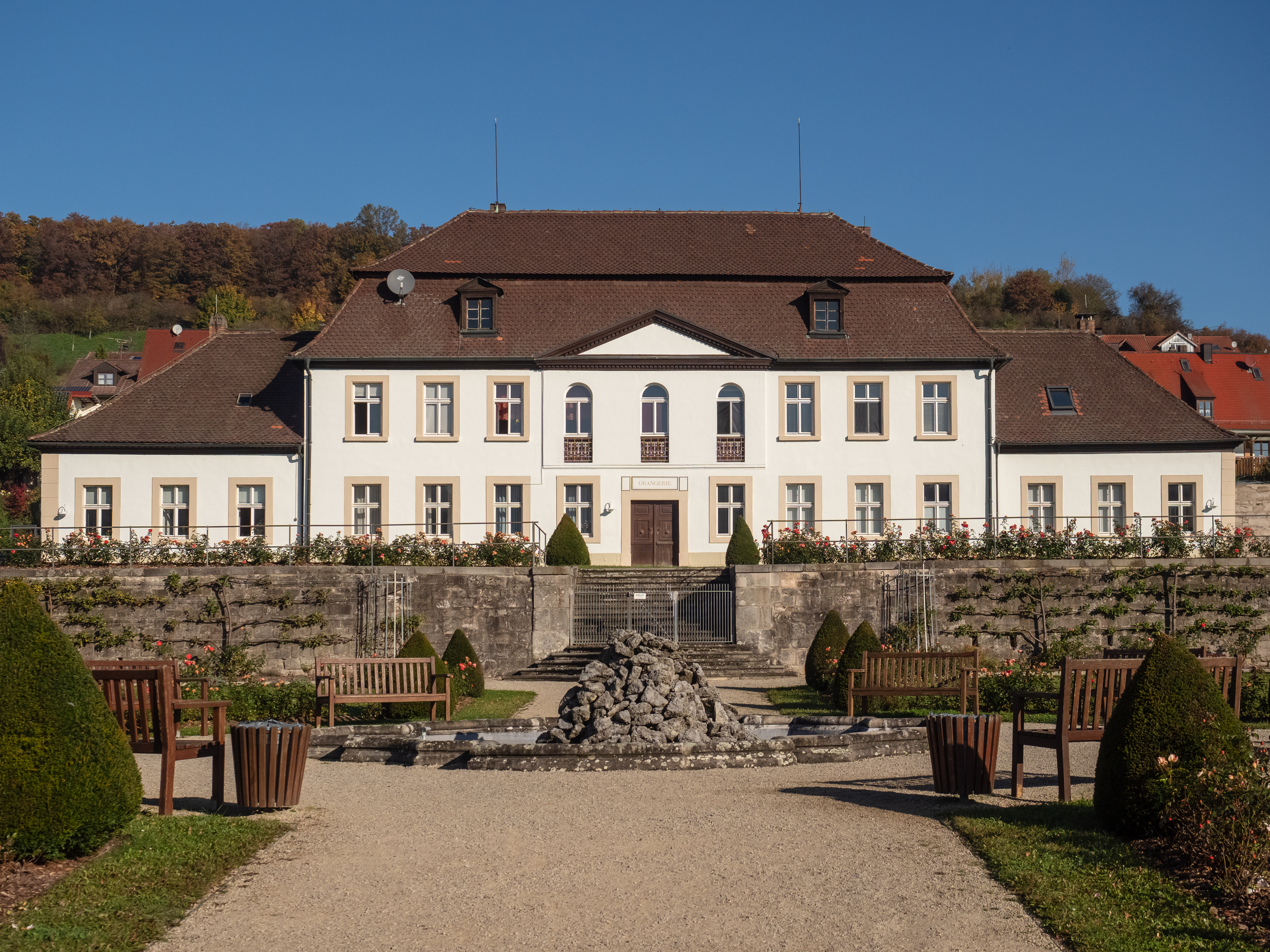 Orangery in the upper abbey garden in Ebrach